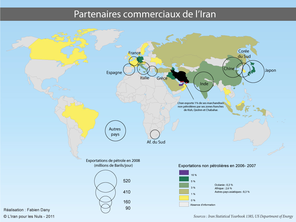 Map of Iran's international trade Exports of non-oil products in 2006-2007 Oil exports in 2008. Sources : Iran Statistical Yearbook 1385, US Department of Energy.